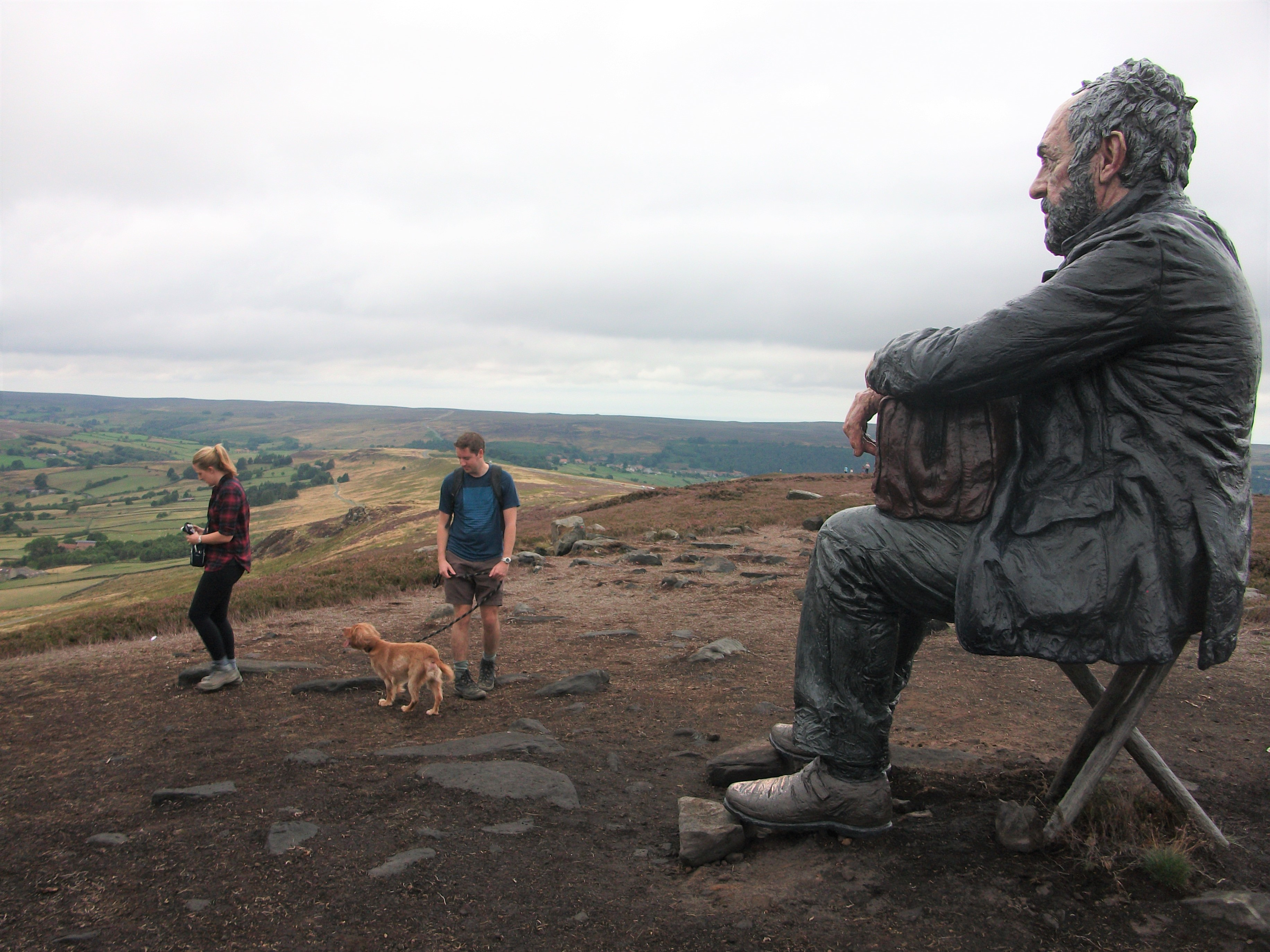 3 metre tall, painted bronze statue. Sculptor Sean Henry. In 2017 sited at Castleton Rigg, North Yorkshire Moors.